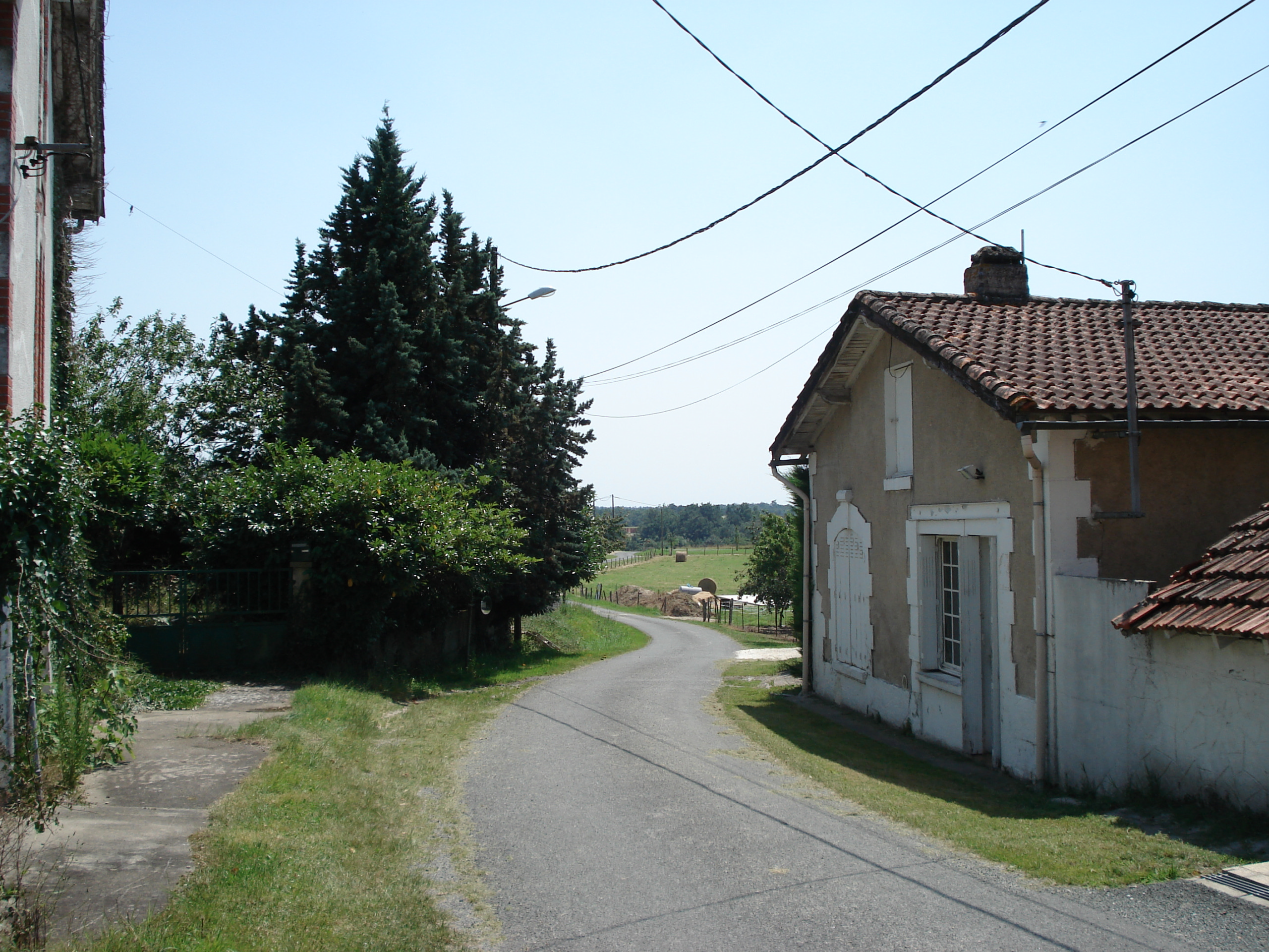 Saint-Géry (Dordogne)